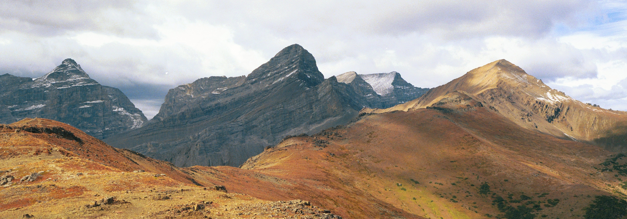 Wind Mountain seen from Mount Allan, Kananaskis Country of Alberta Canada